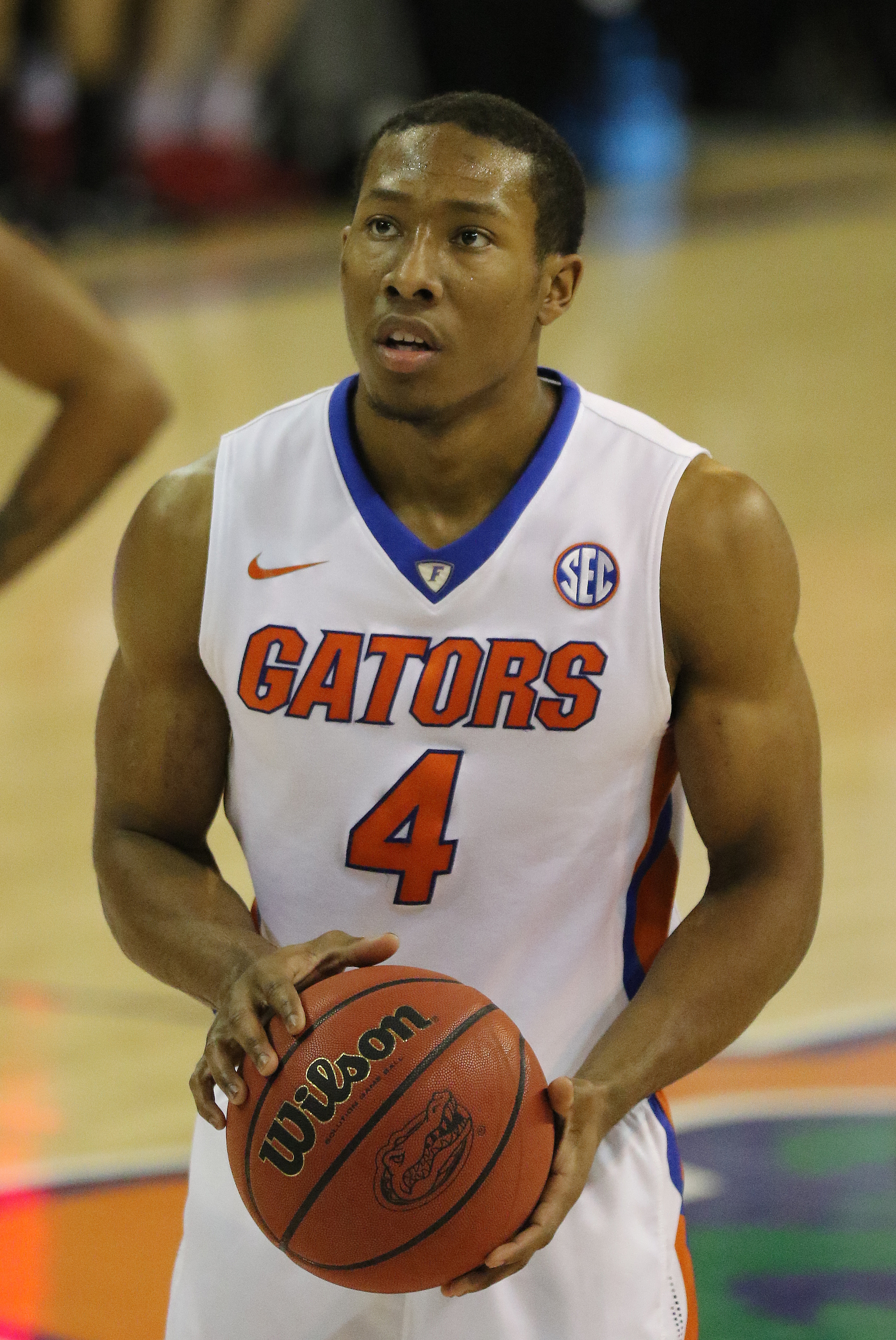 Georgia Bulldogs vs Florida Gators, Gators win 77-63 in front of 9053 at the O'Connell Center.